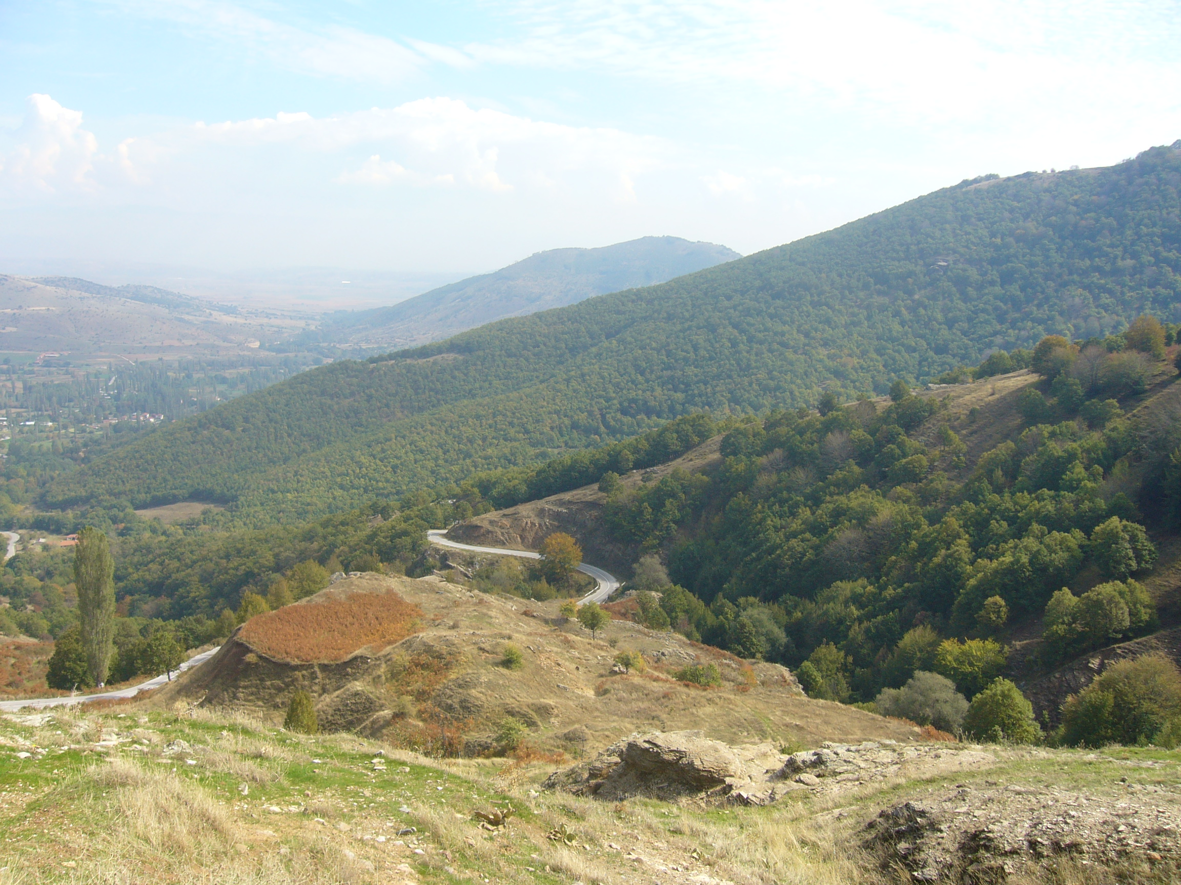 Village of Variko, Macedonia, Greece.